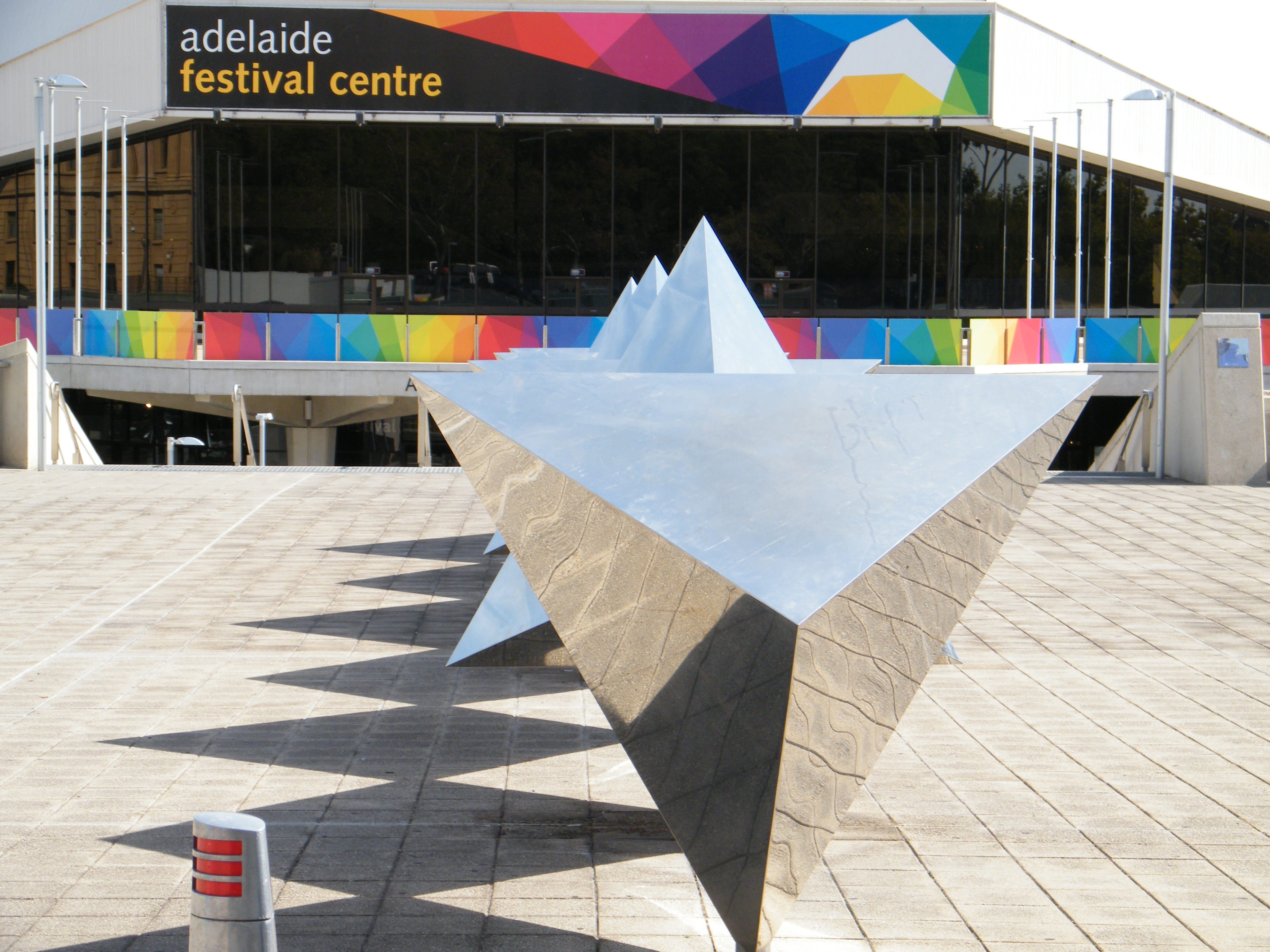 Sculpture by Bert Flugelman at the Festival Centre Adelaide/Australia